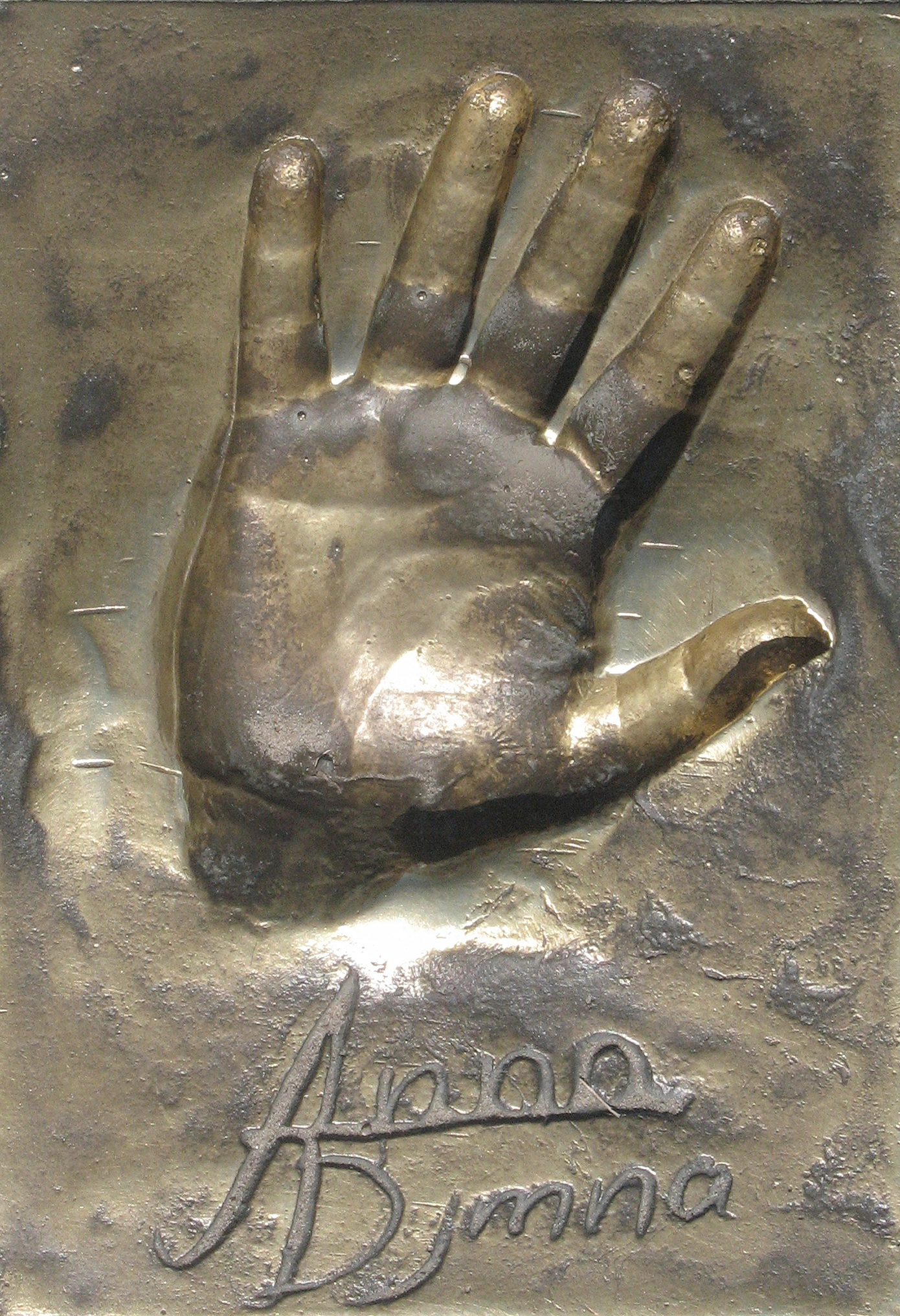 Anna Dymna - handprint and signature in Międzyzdroje.